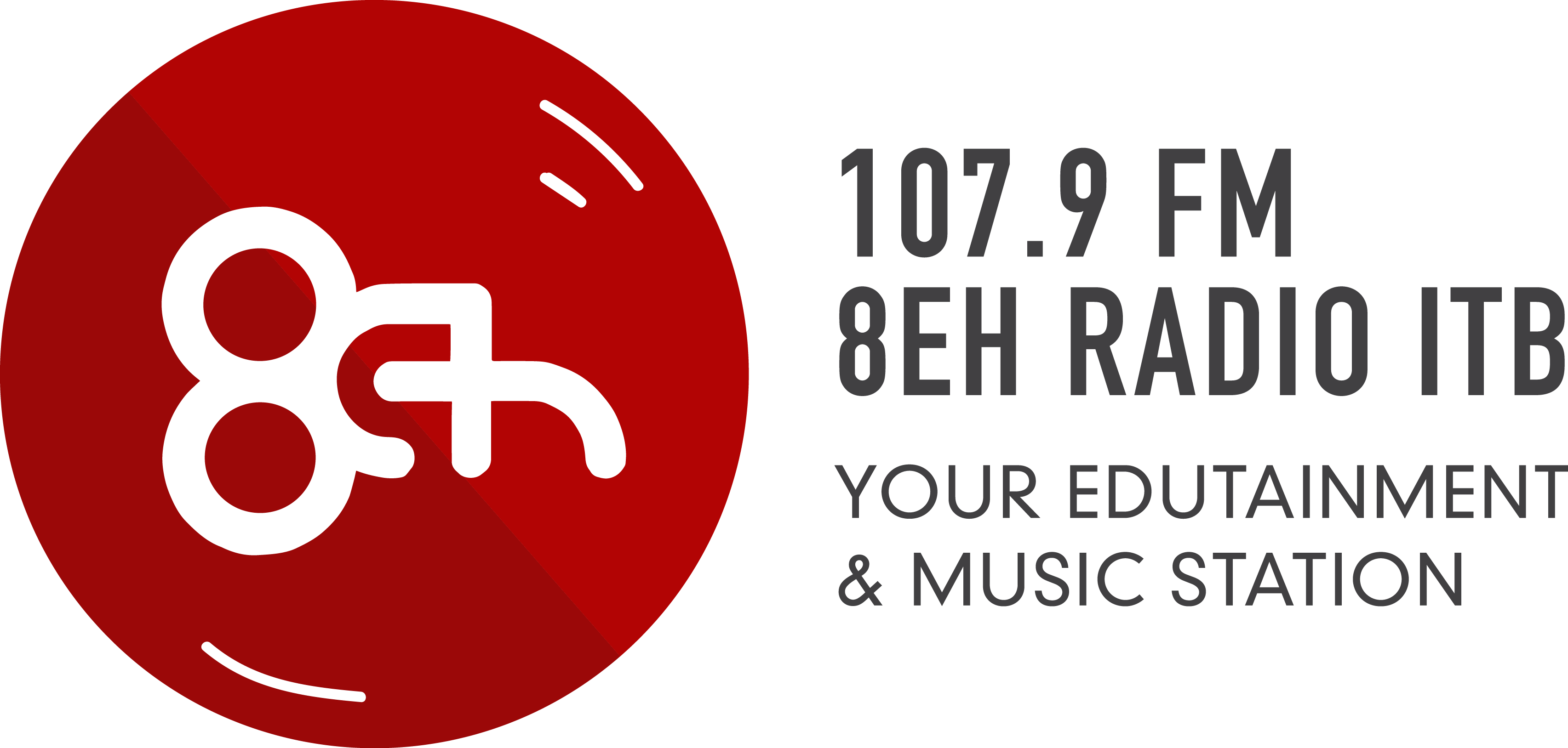 2014 main logo of 8EH Radio ITB